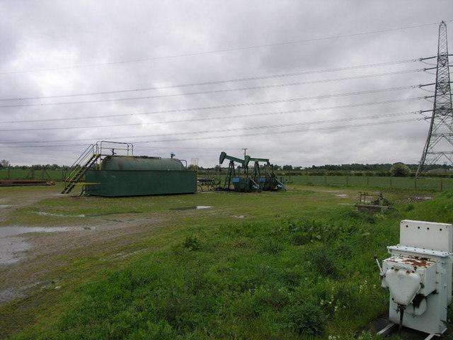 Nodding Donkeys. Difficult to see in this picture but the nodding donkey on the right was the only one pumping oil at the time.